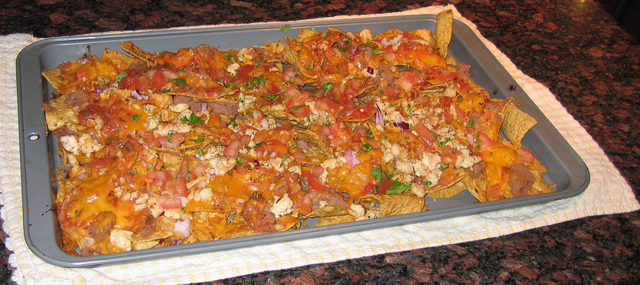 Nachos.